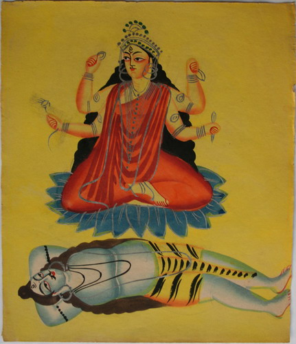 Rajarajeswari., Kalighat painting